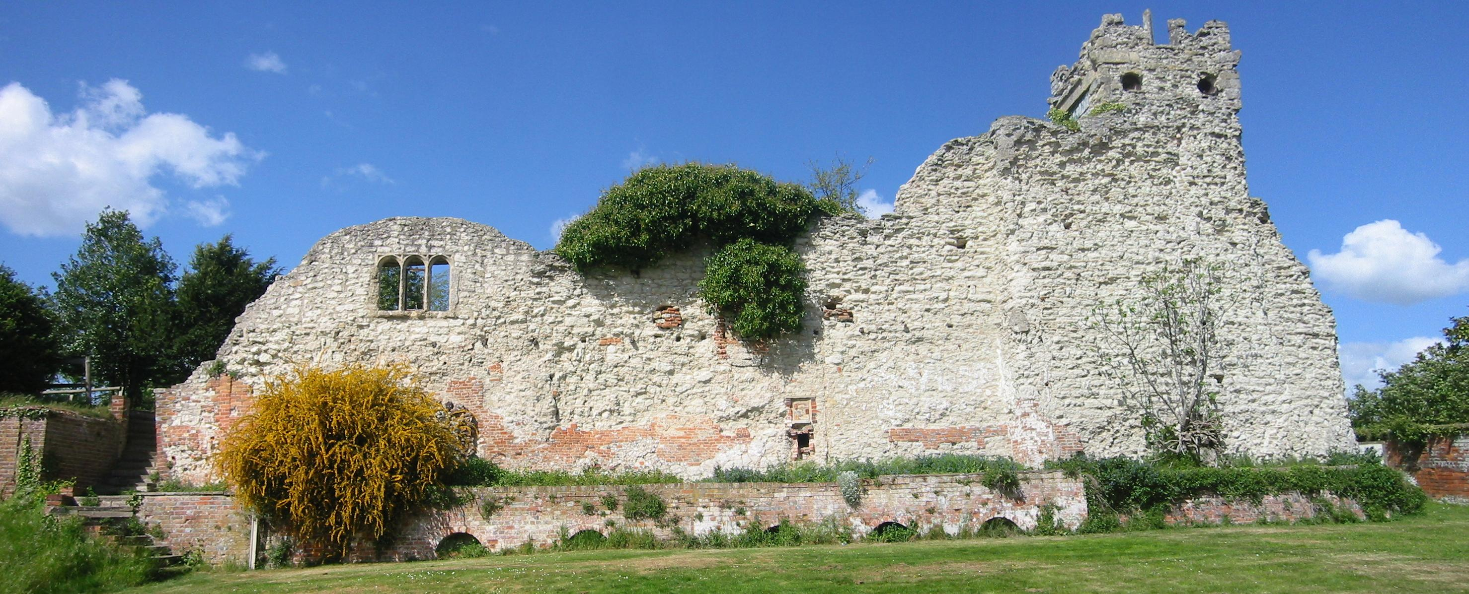 wallingford ( oxfordshire UK ) castle ruins remains of saint nicholas college